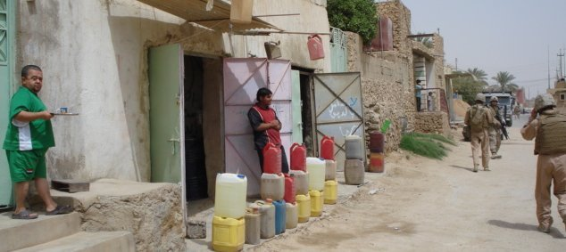 Street scene in Hadithah, Iraq showing local residents and US Marines